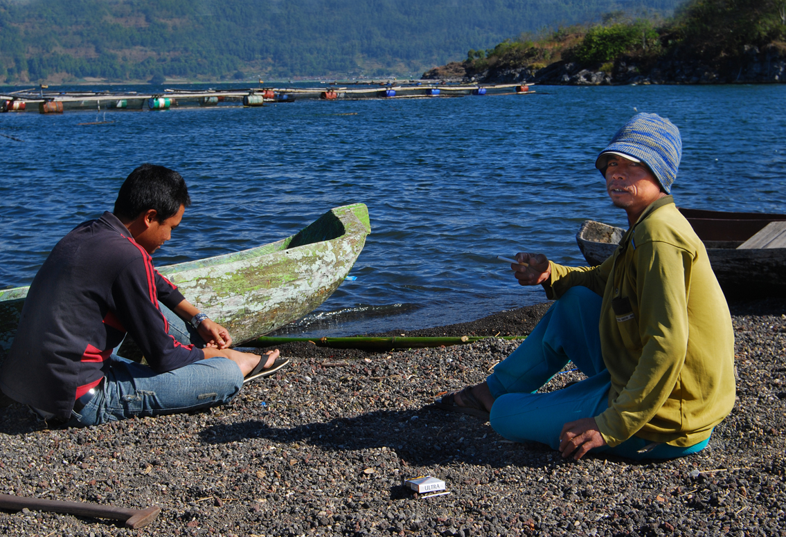 Fishermen relaxing by the shore